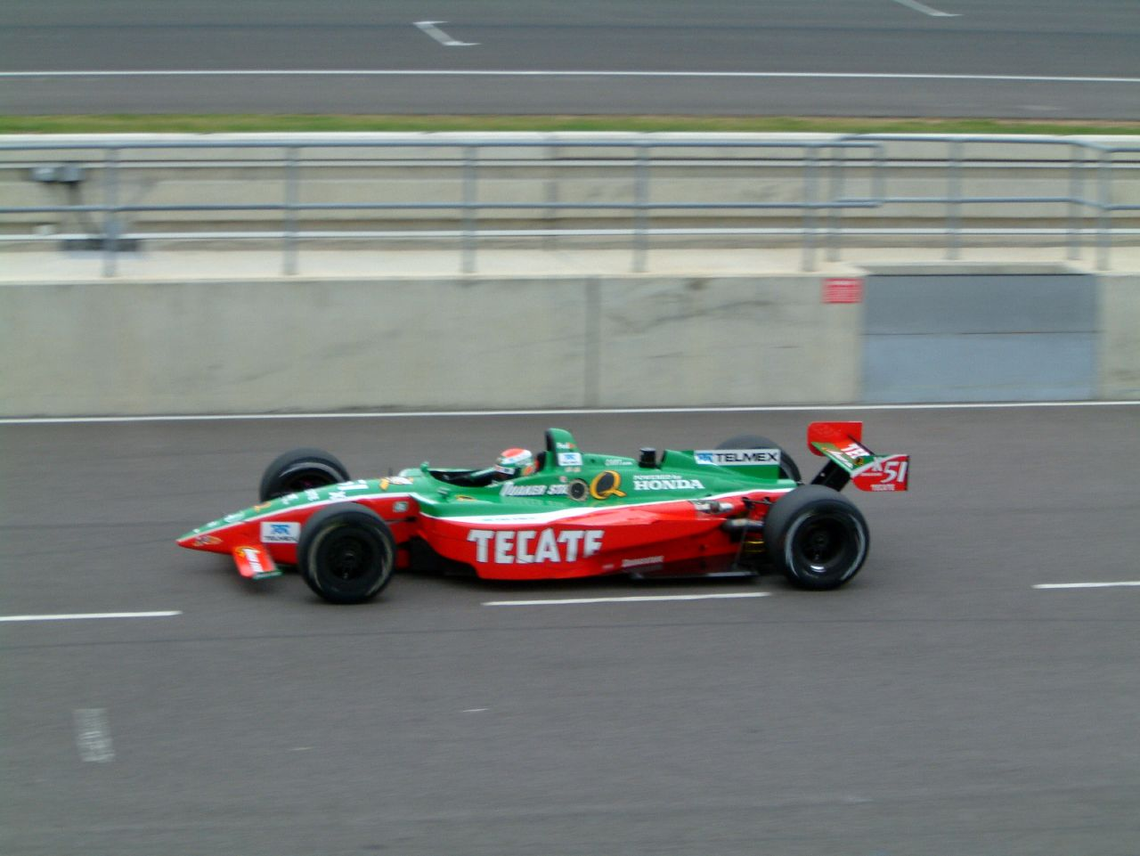 Adrian Fernández driving for Fernández Racing at the 2002 Sure For Men Rockingham 500